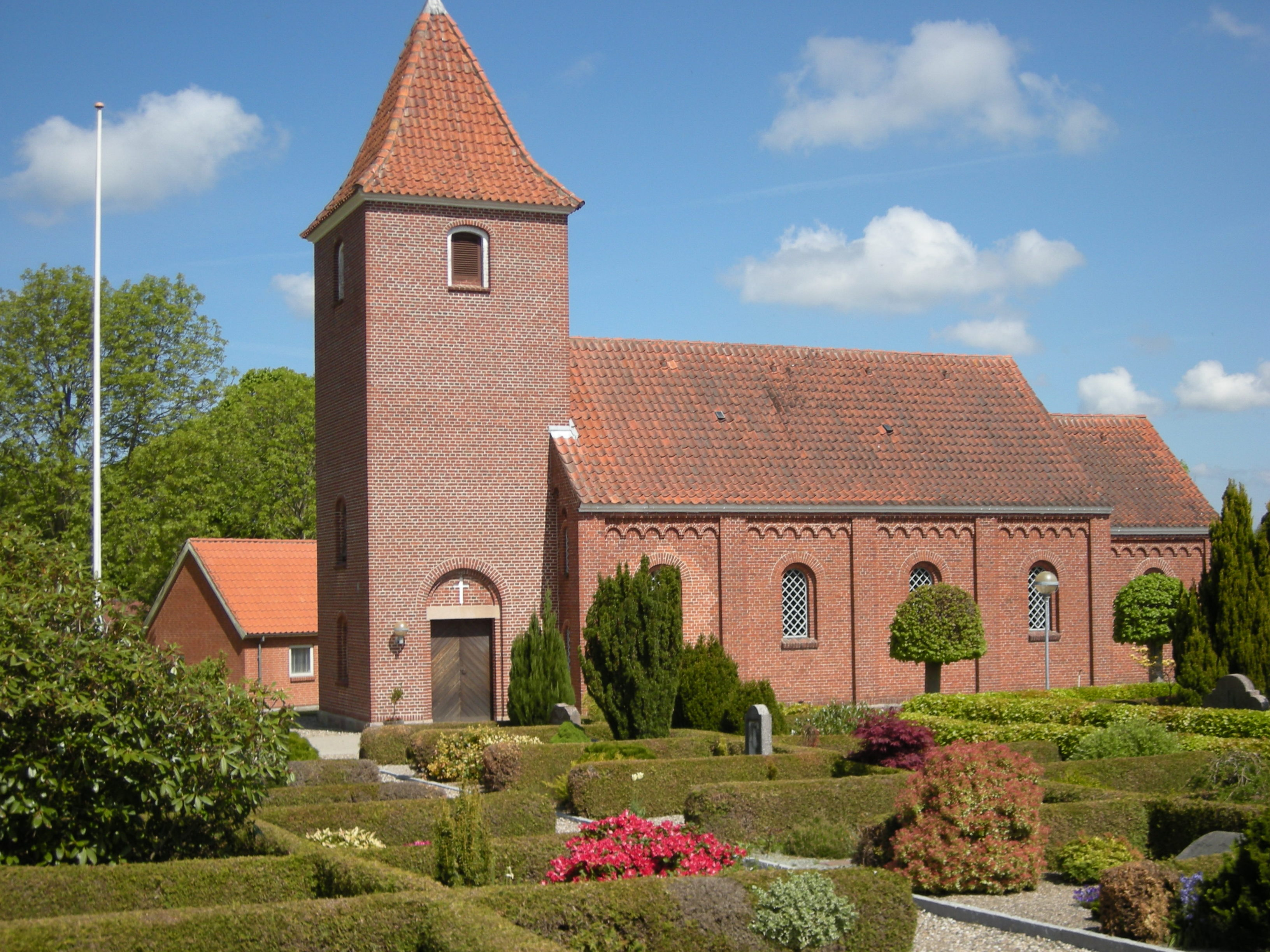 Sørup Church, Municipality of Rebild, Region Northern Jutland, Denmark.